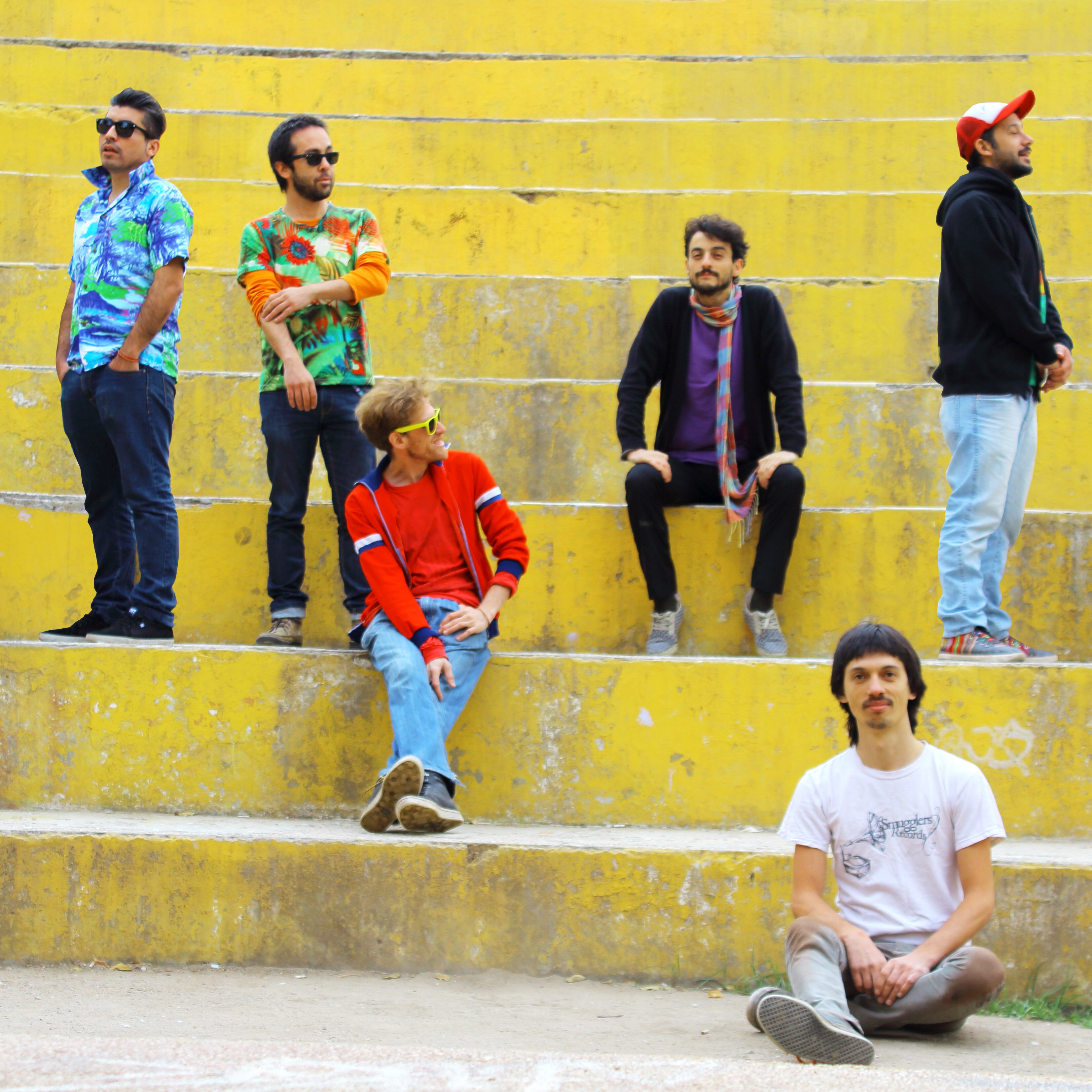 Keko Yoma 2015, Powerful, energetic, funny and direct show. Includes a visual and musical atmosphere, improved by a very potent body language.